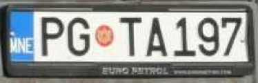 Podgorica (TA-Tuzi)